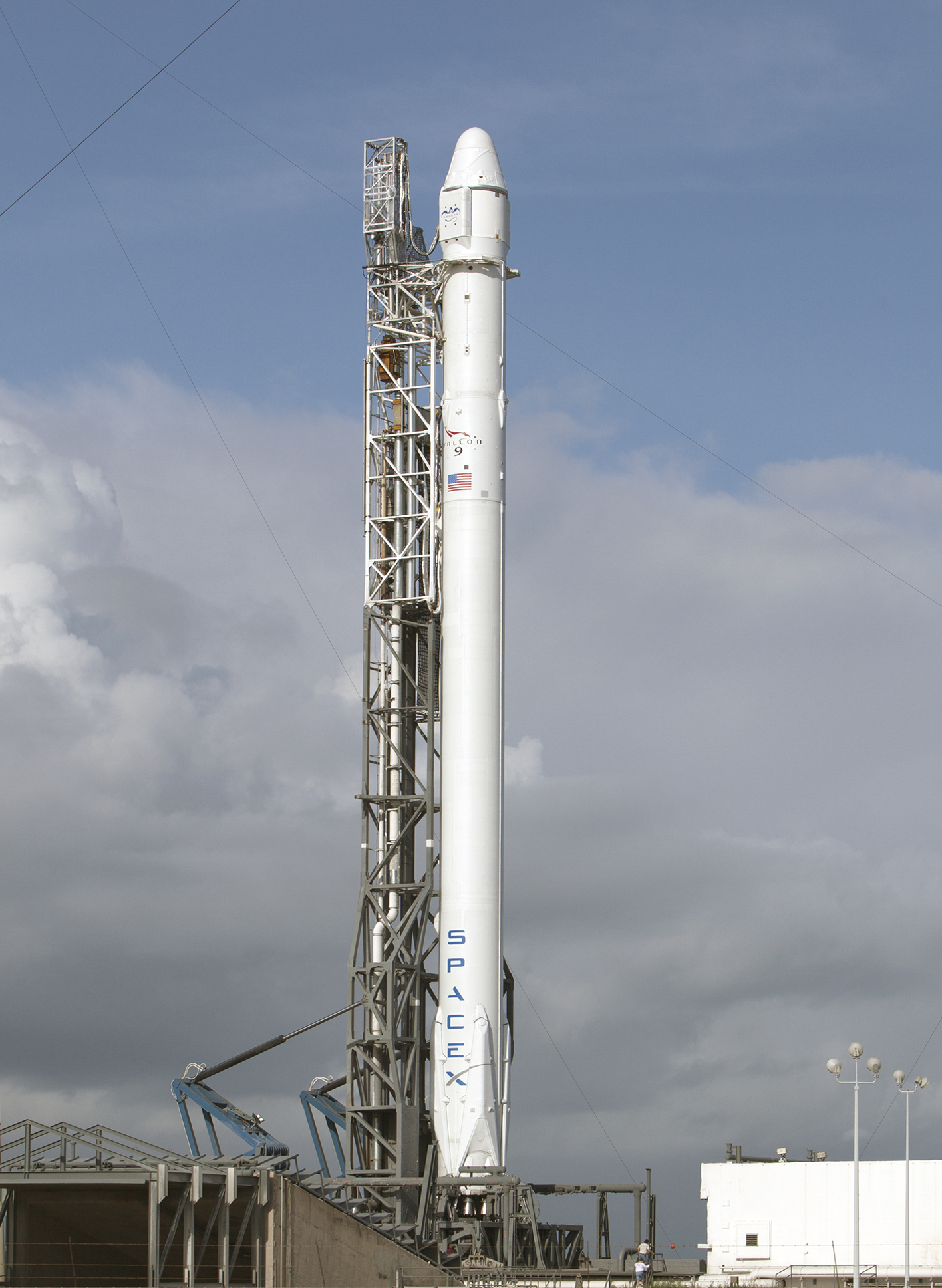 CAPE CANAVERAL, Fla. - Social media representatives get an up-close view of the SpaceX Falcon 9 rocket and Dragon Capsule on Space Launch Complex 40 on Cape Canaveral Air Force Station in Florida. NASA Social participants are given the same access as news media in an effort to align the experience of social media representatives with those of traditional media, including the opportunity to view a launch of SpaceX’s Falcon 9 rocket, tour NASA facilities at Kennedy Space Center, speak with representatives from both NASA and SpaceX, view and take photographs of the SpaceX launch pad, meet fellow space enthusiasts who are active on social media and meet members of SpaceX and NASA's social media teams. Scheduled for launch at about 4:58 p.m. EDT April 14, Dragon will be making its fourth trip to the space station. The SpaceX-3 mission, carrying almost 2.5 tons of supplies, technology and science experiments, is the third of 12 flights under NASA's Commercial Resupply Services contract to resupply the orbiting laboratory.